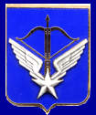 regimental badge of the regimental badge of the 4th Regiment of Special Forces helicopters.